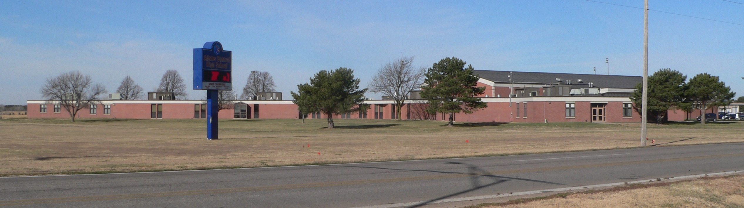 Adams Central High School, located at northwest corner of U.S. Highways 6/34 and Adams Central Avenue, west of Hastings in rural Adams County, Nebraska. View is from the southeast, looking across Adams Central Ave.